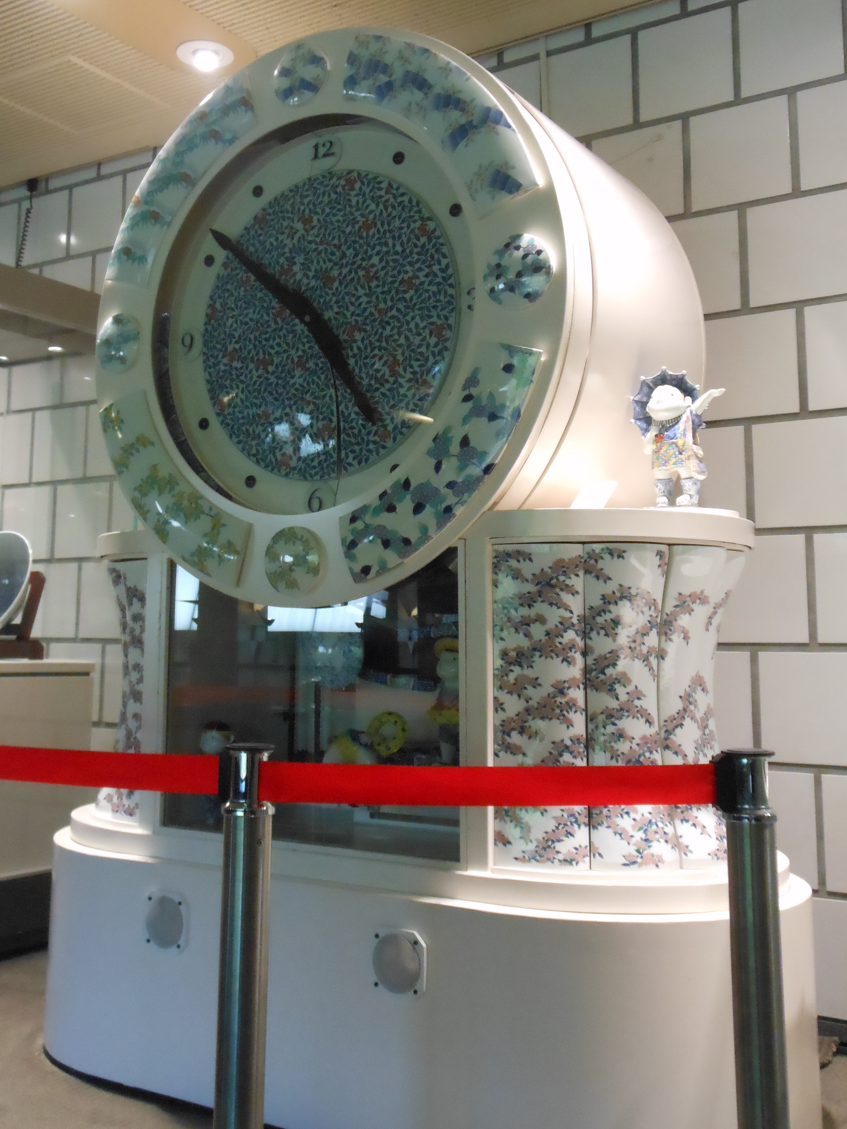 Gimmick music box clock made by Arita ware in Kyushu Ceramic Museum.